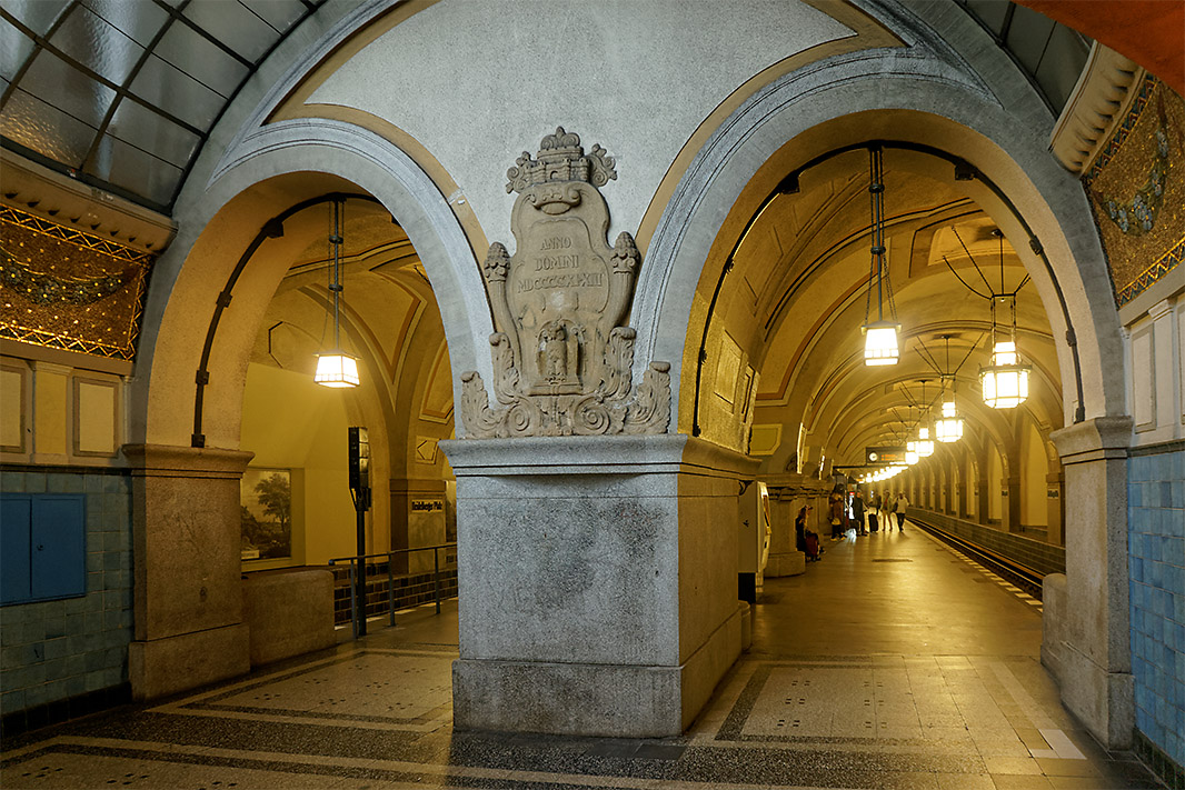 The Berlin subwaystation U-Bahnhof Heidelberger Platz line U3, Germany